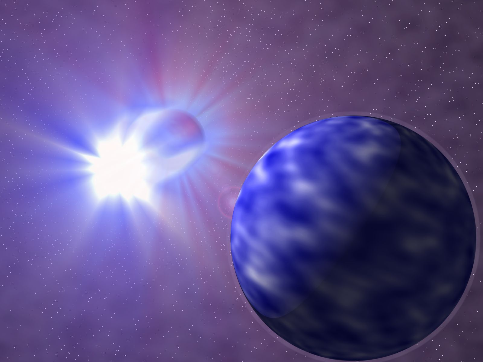 Artist vue for Vinea planet while its two suns are destroying each other (see Yoko Tsuno comics).